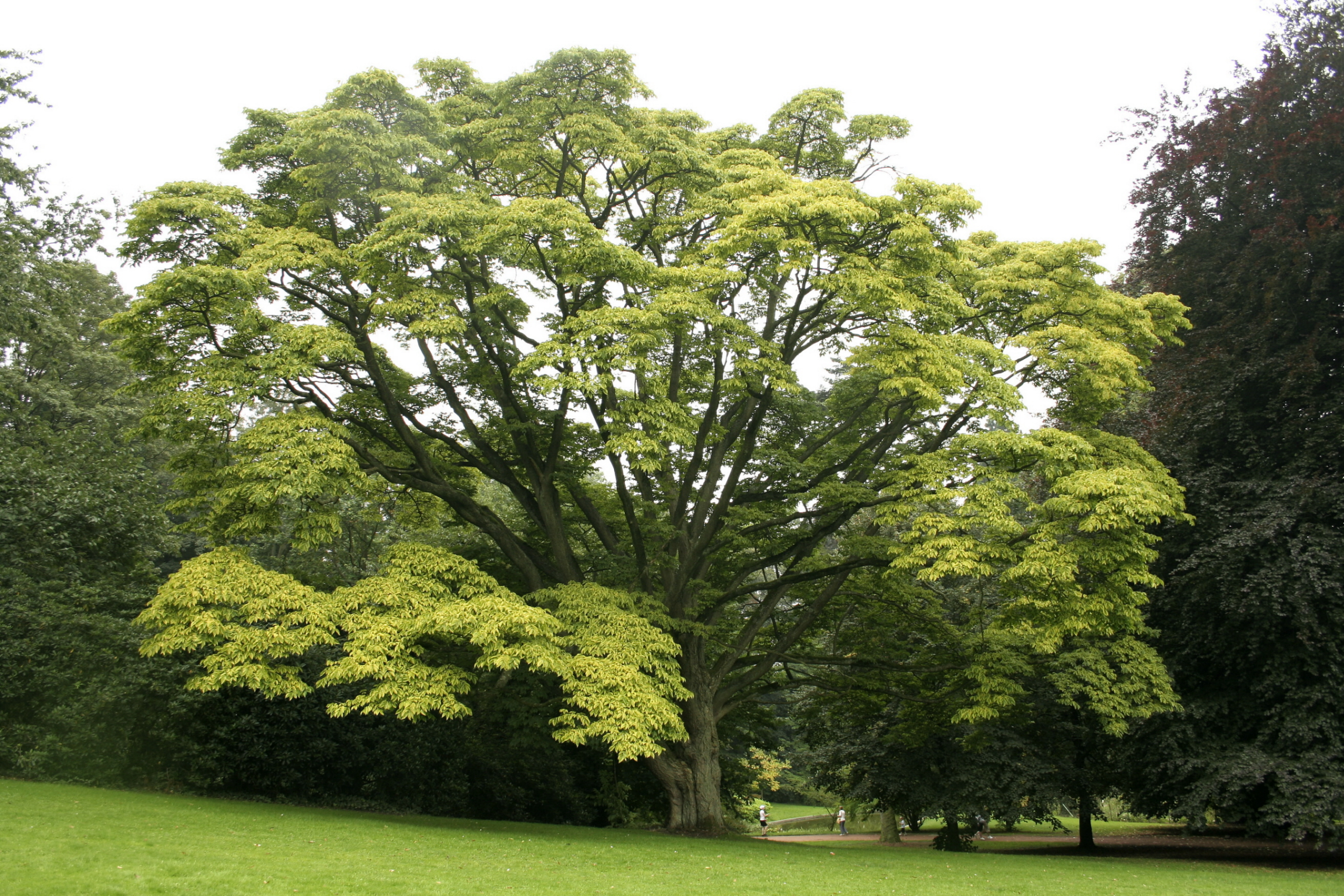 Amur Corktree